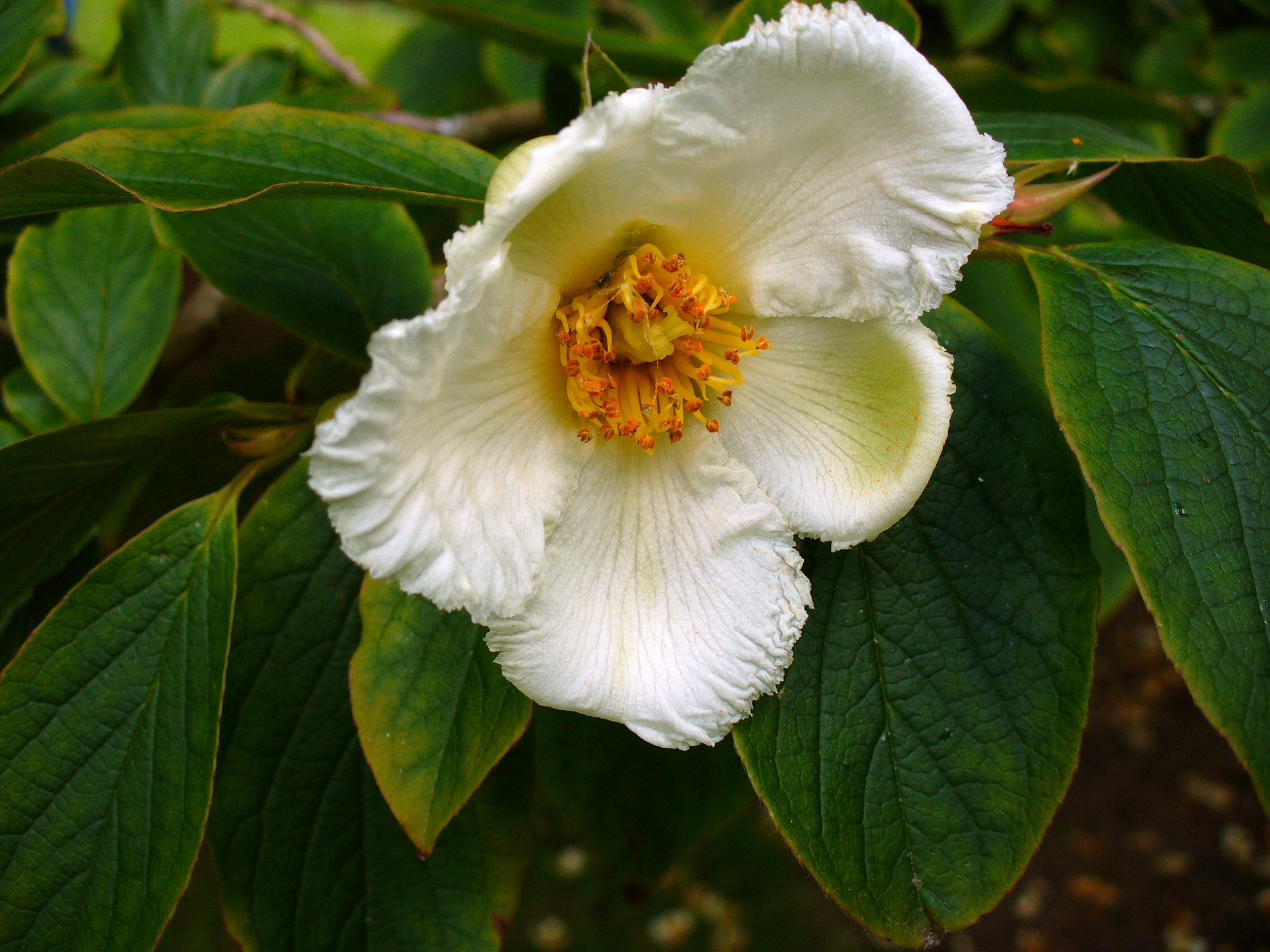 Trelissick, near Truro, Cornwall, UK.